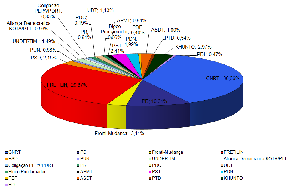 Results of parliament election in East Timor 2012